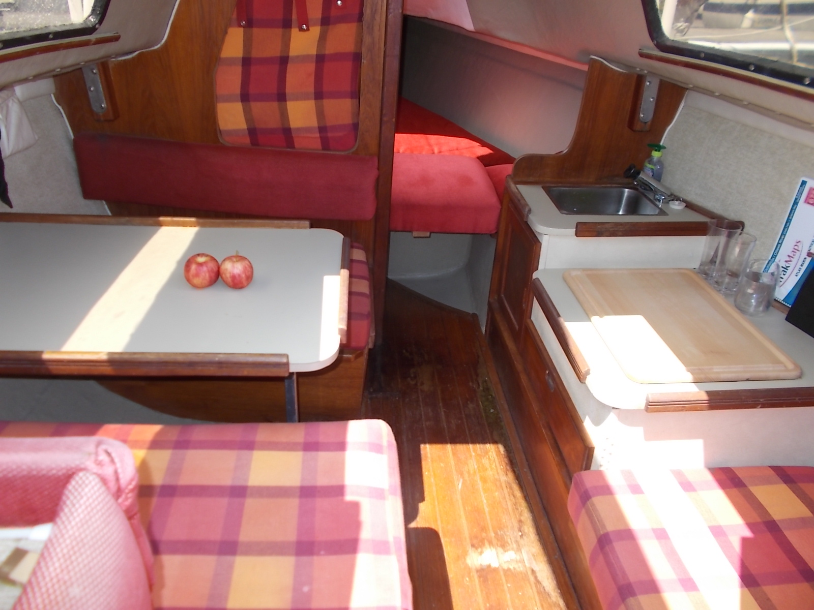 US Yachts US 22 interior looking forward.